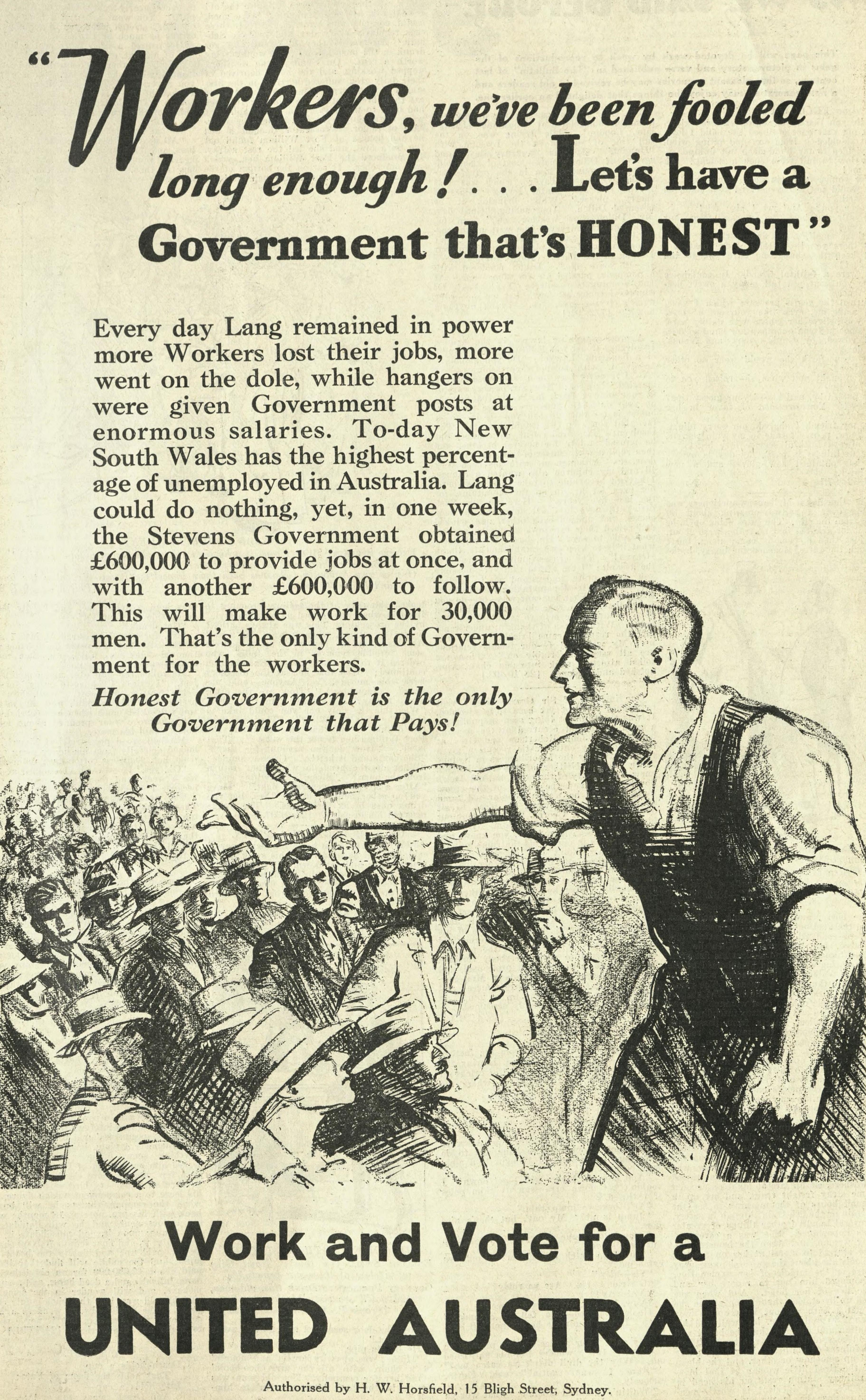 Australian election advertisement for the United Australia Party at the 1932 New South Wales state election. The advertisement attacks the Australian Labor Party and its leader Jack Lang.